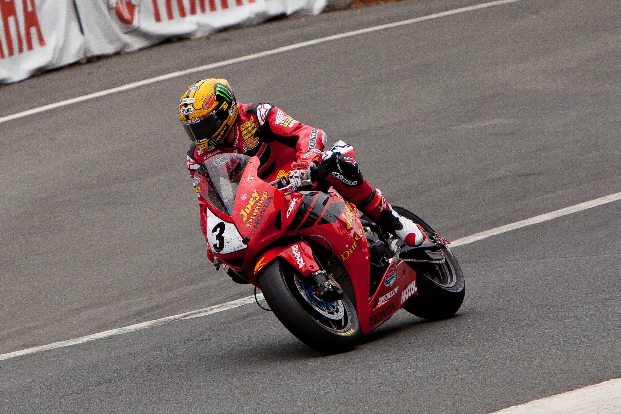 John McGuinness at the Isle of Man TT 2013 Isle of Man TT 2013